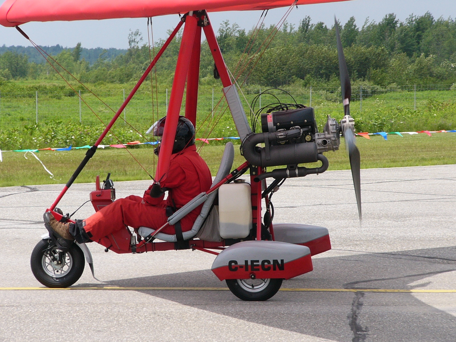 Air Creation Fun Racer 503 at Les Faucheurs de Marguerites, Sherbrooke, Quebec, Canada